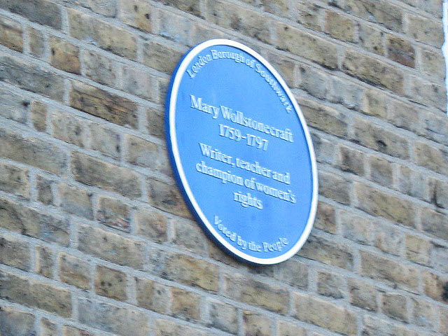 Blue plaque for Mary Wollstonecraft The early feminist writer, whose daughter (also Mary) wrote 'Frankenstein', lived here. Biography at Mary_Wollstonecraft